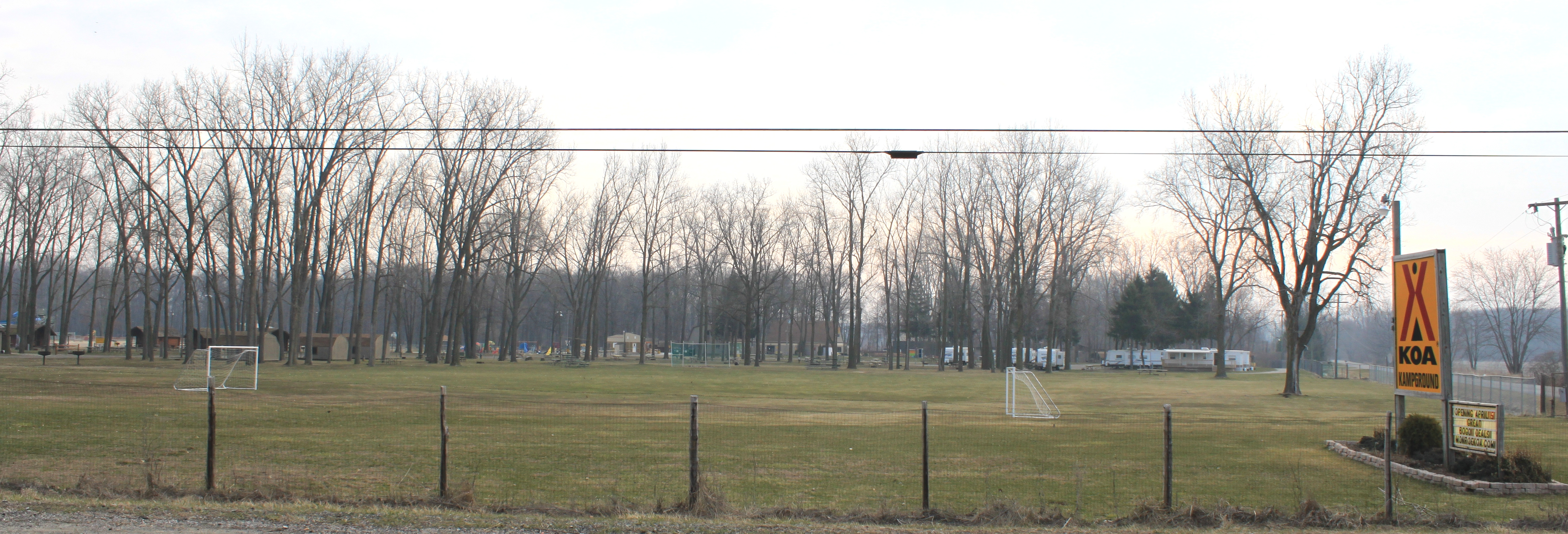 KOA campground, 15600 Tunnicliffe Road, Petersburg, Michigan